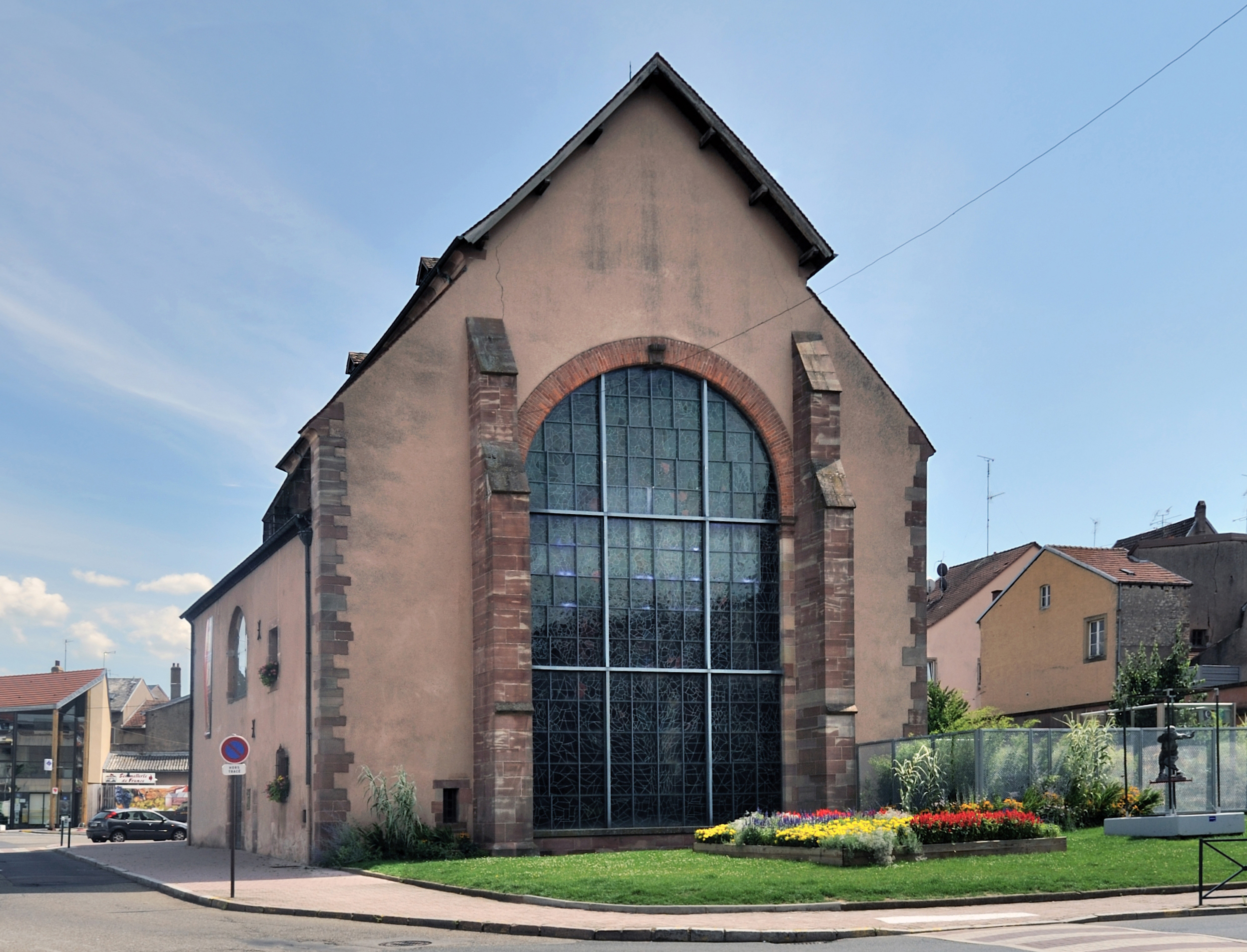 Sarrebourg, department of Moselle, France: chapelle des Cordeliers in the centre of the city. Former Franciscan church, presently a museum which displays since 1976, in the western 'opening', a stained glass by Marc Chagall. The glass is 12 m high and 7.50 m wide.